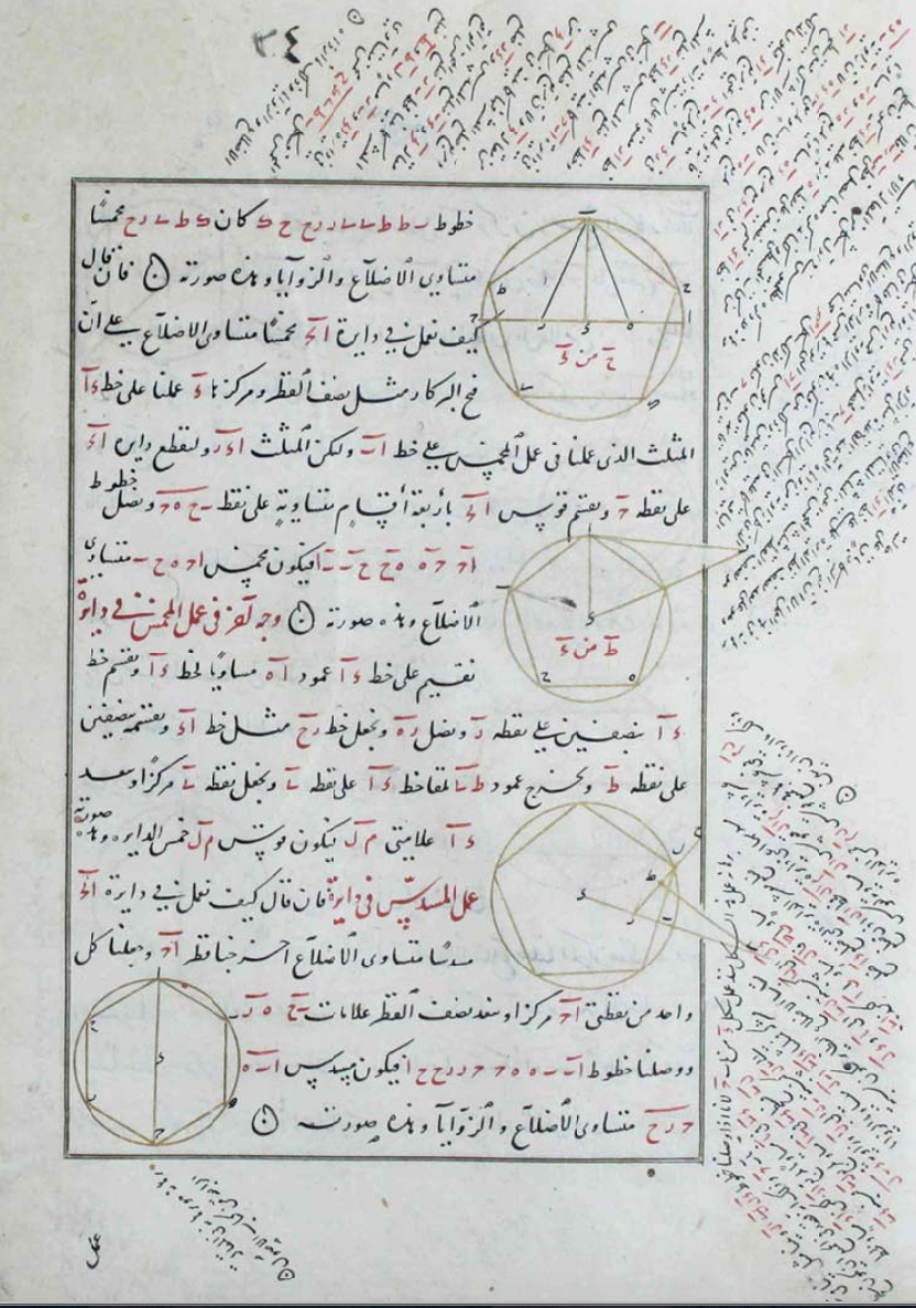 The page 34 of the "Book on Those Geometric Constructions Which Are Necessary for a Craftsman" (كتاب فيما یحتاج إليه الصانع من أعمال الهندسة Kitāb fīmā yaḥtāj ilayh al-ṣāniʿ min aʿmāl al-handasa)